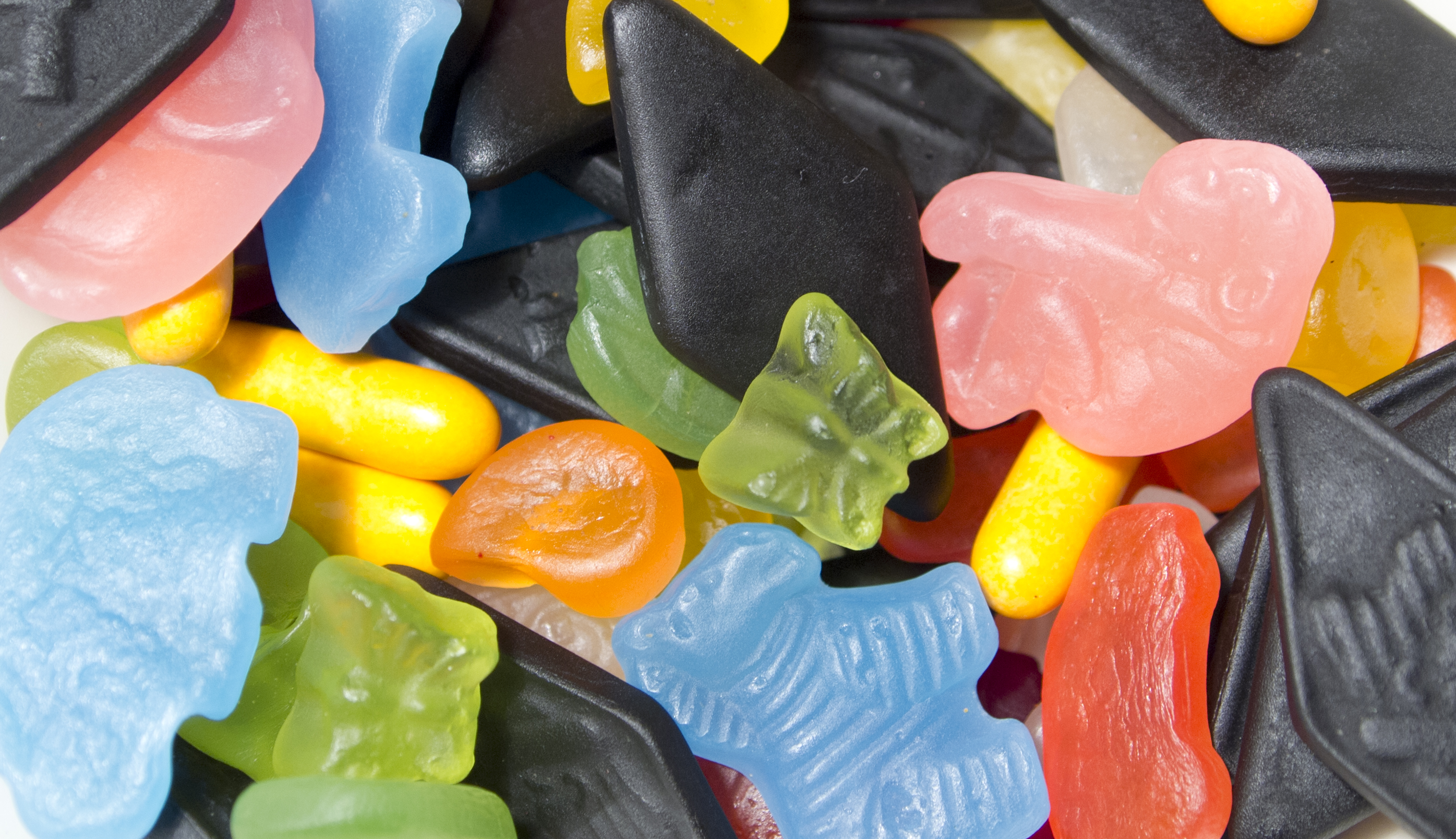 Candy assortment Aarrearkku by Fazer. It's composed of fruit, salmiak and liquorice candies.